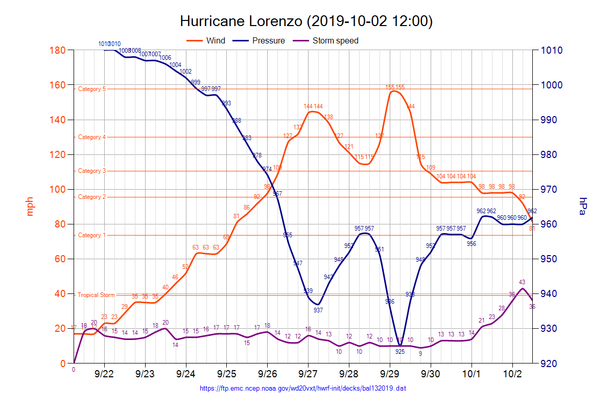 Hurricane Lorenzo (2019) chart